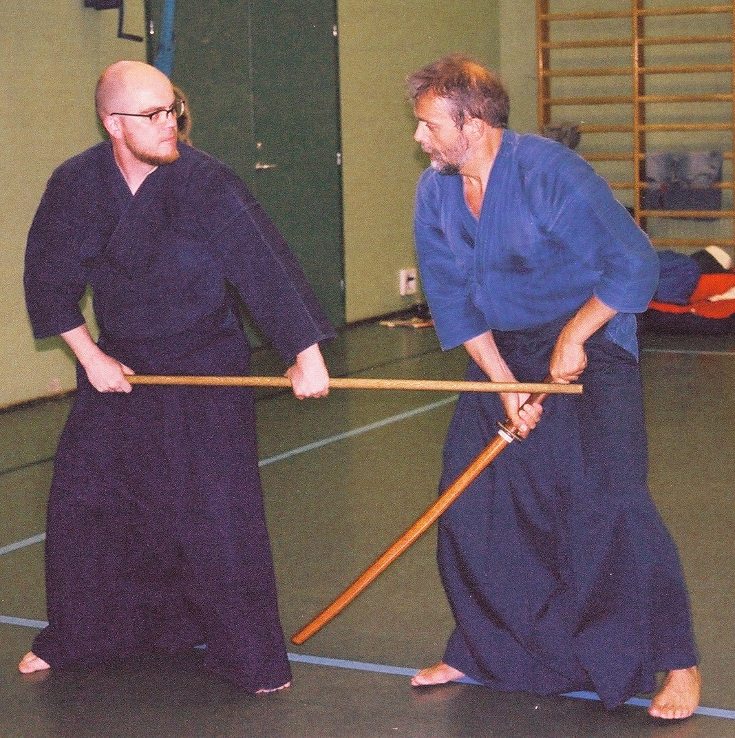 Old Japanese Martial art called Jodo – technique: Kuri tsuke